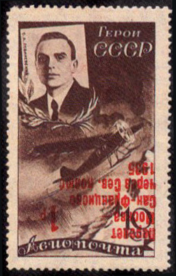 Postage stamp of USSR, 1935: Aviator Sigizmund Levanevsky. With overprint (overprint on this copy of stamp is inverted)